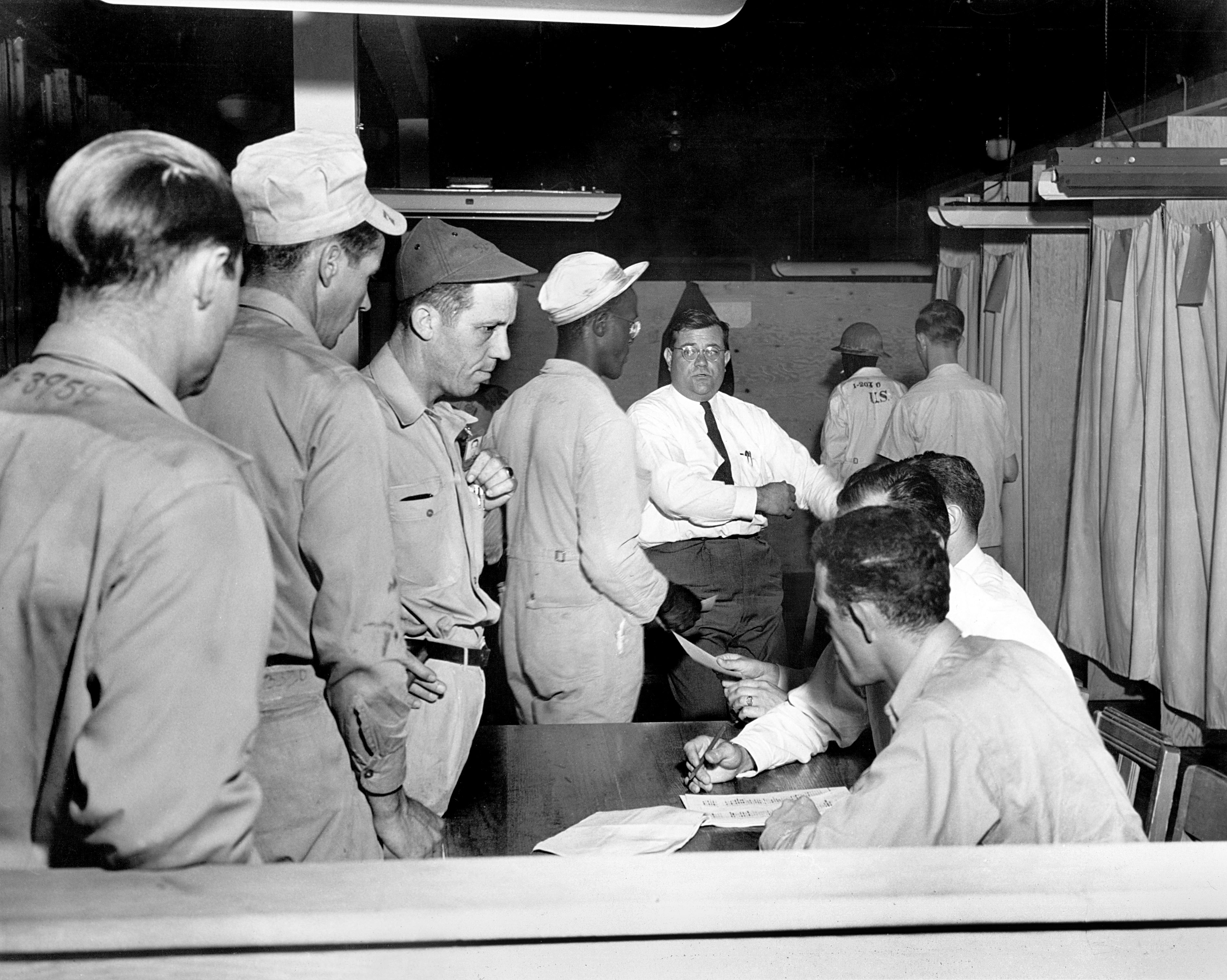 DOE photo Ed Westcott 6-1-1948 N.L.R.B. Voting ORNL Oak Ridge Tennessee